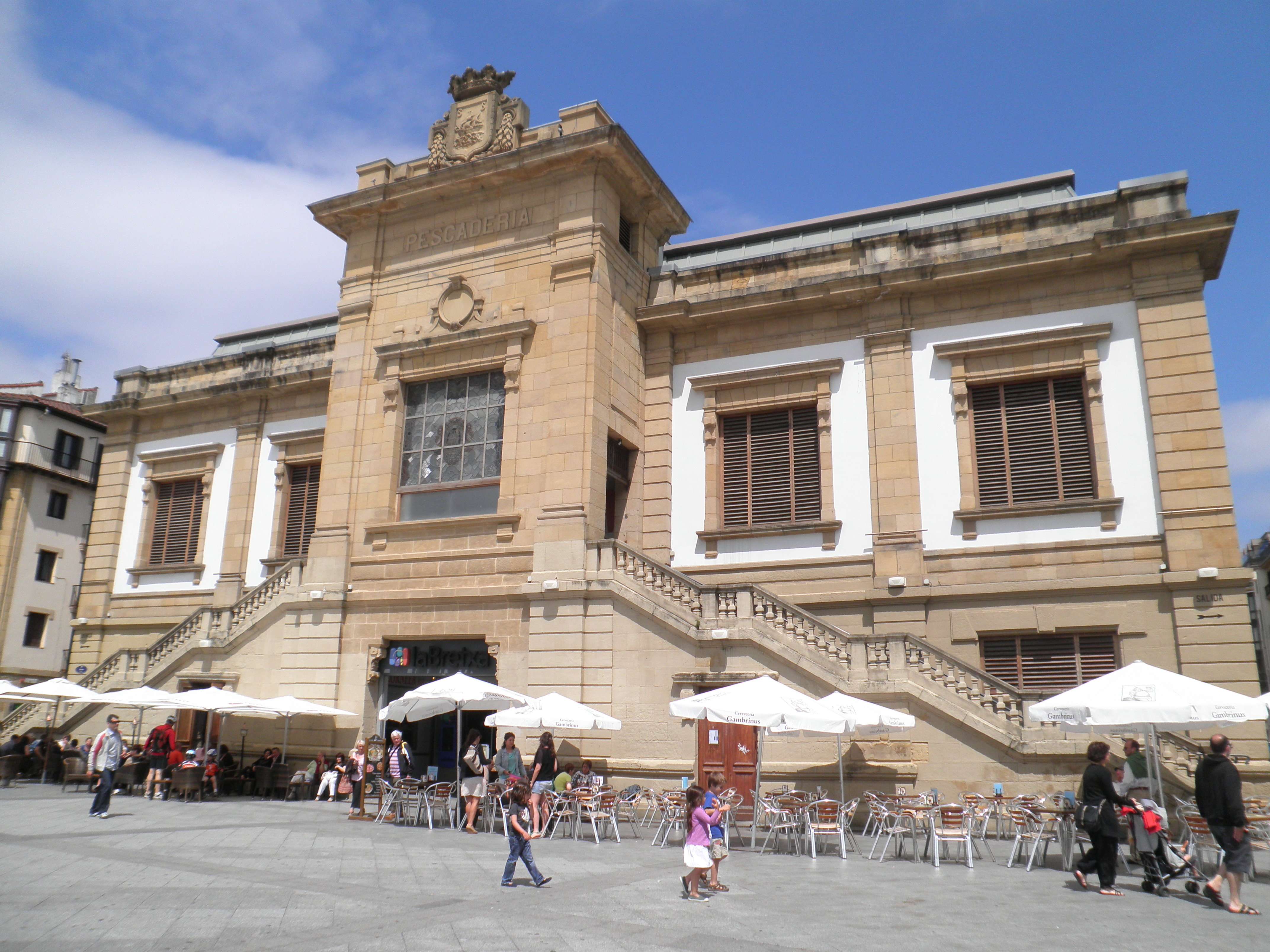 Bretxa market in Donostia.